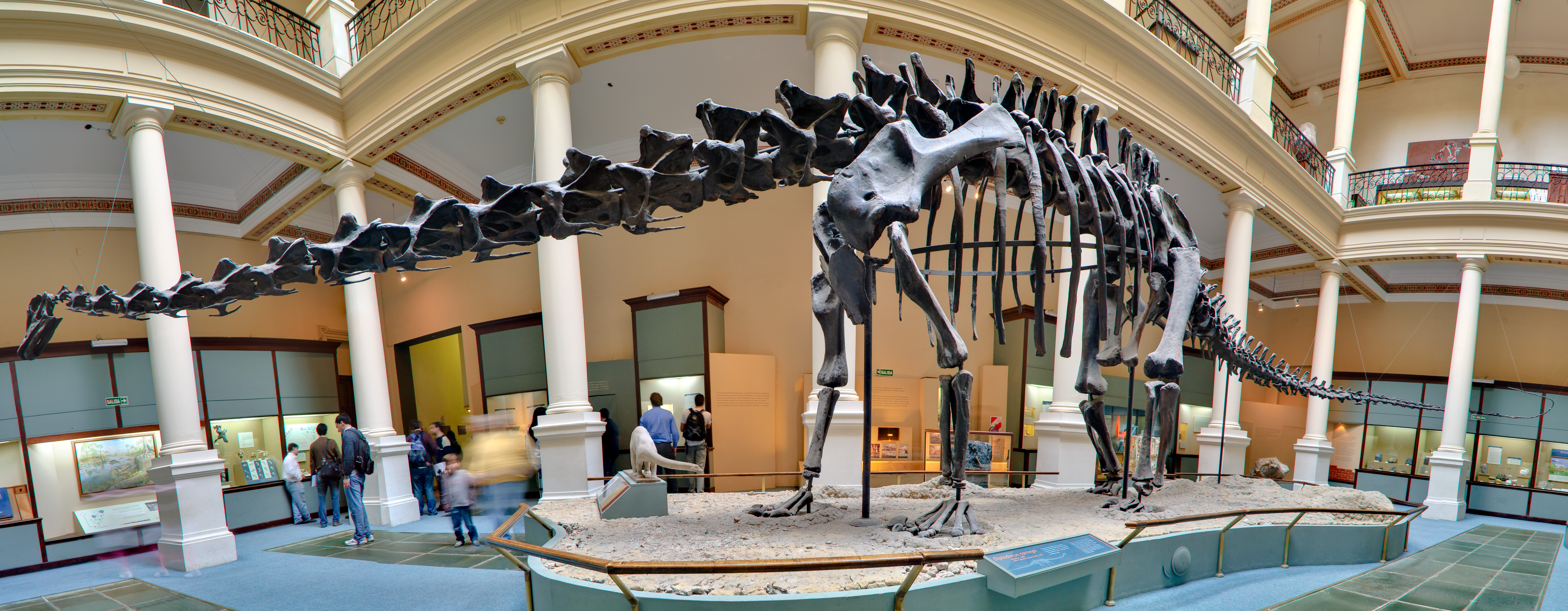 Panoramic view of Diplodocus Carnegii held from 6 photos.